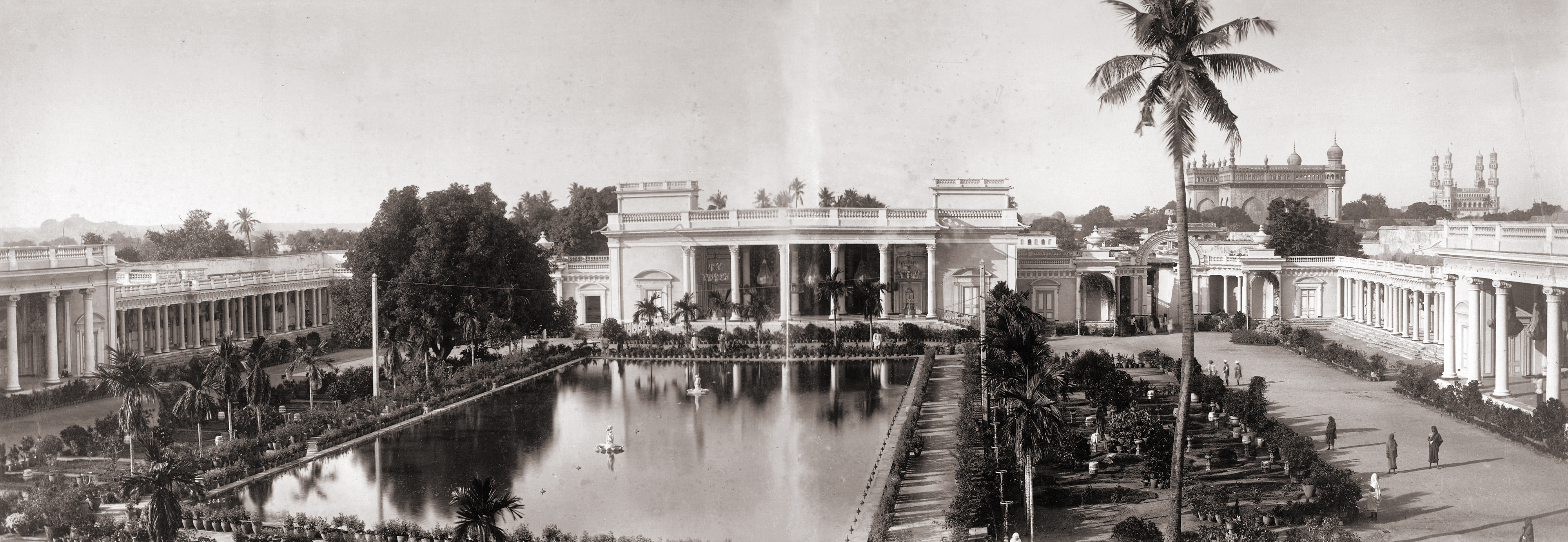 Panoramic view in two parts of the Chaumhalla Palace at Hyderabad, photographed by Deen Dayal in the 1880s. This is part of the Curzon Collection: 'Views of HH the Nizam's Dominions, Hyderabad, Deccan, 1892'. The Chaumhalla Palace complex is made up of four palaces: the Afzal Mahal, Mahtab Mahal, Tahniyat Mahal and Aftab Mahal, all arranged around a central courtyard garden with a marble cistern in the centre. The Chaumhalla Palace was commenced in 1750 with later additions by successive Nizams.